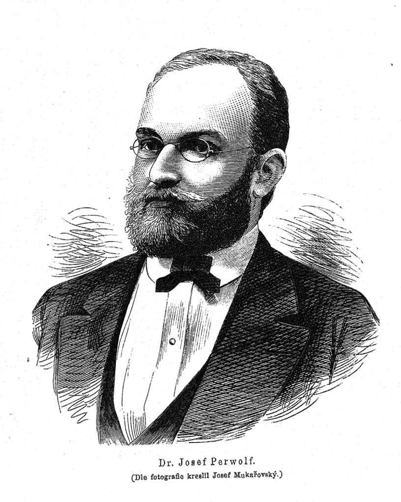 Portrait of Josef Perwolf (1841-1892), Czech slavist.